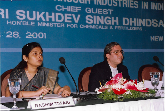 Dr. Rashmi Tiwari at American Chambers of Commerce in India